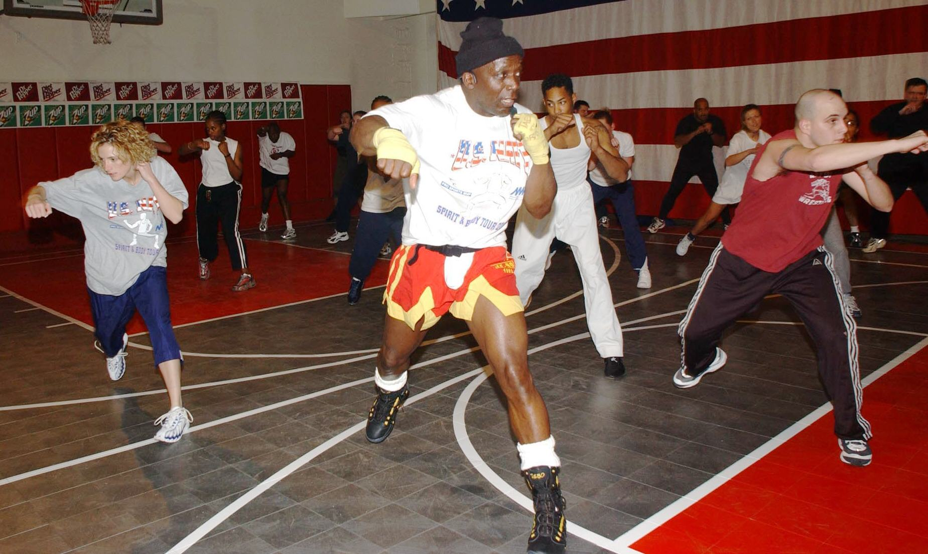 020111-N-1523T-001 GAETA, Italy, Jan. 11, 2002 --. Signalman Seaman Jeremy Cavaretta of New York (right) works out with Billy Blanks (center), the creator of "Tae Bo", during his visit aboard the Sixth Fleet flagship USS La Salle (AGS 3). Blanks was onboard for a ribbon-cutting ceremony officially opening a new multi-purpose court onboard. The $29,000 facility, which was funded completely by non-appropriated or non-taxpayer funds, is part of an ongoing effort to improve exercise facilities for Sailors serving at sea. U.S. Navy photo by Photographer's Mate 2nd Class Todd Reeves. (Released)